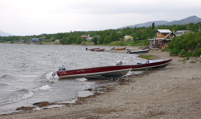 Erin McKittrick, Ground Truth Trekking, own work